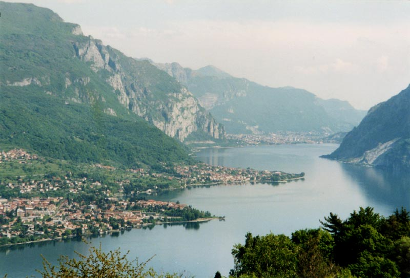 Another view of Lake Como's Lecco Arm